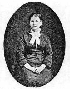 Portrait of the Danish writer Henriette Nielsen (1815-1900)